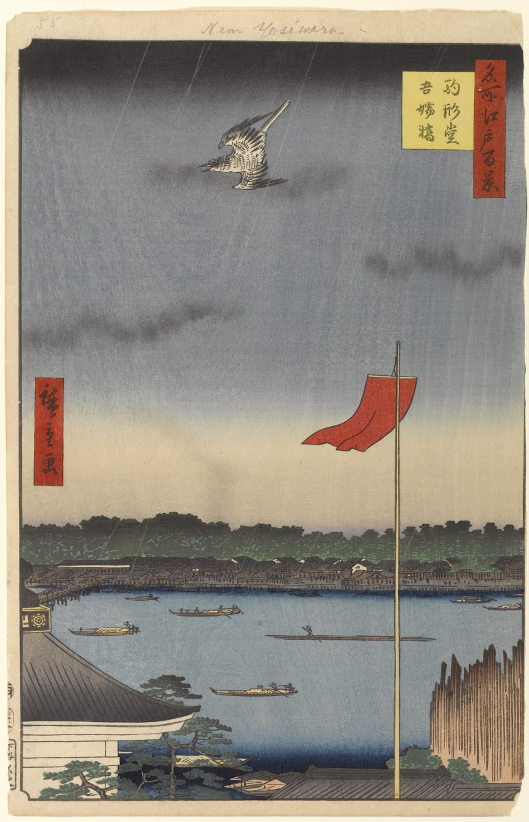 Part of the series One Hundred Famous Views of Edo, no. 062, part 2: Summer.